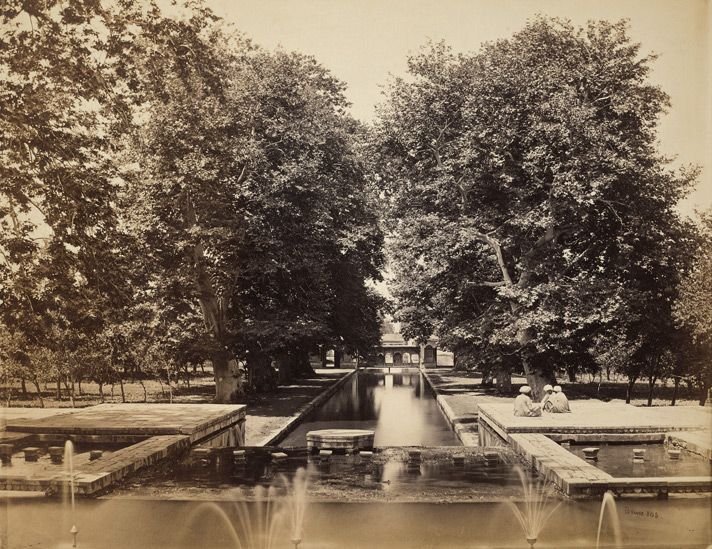 Shalimar Gardens, Kashmir.